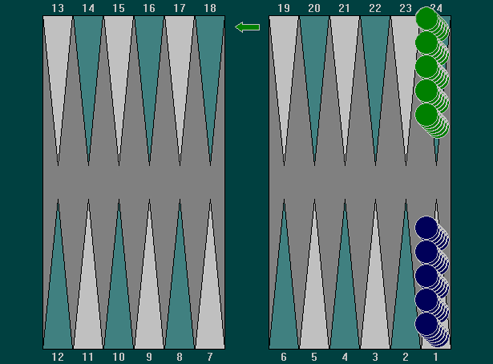 Starting position in the game Tapa.